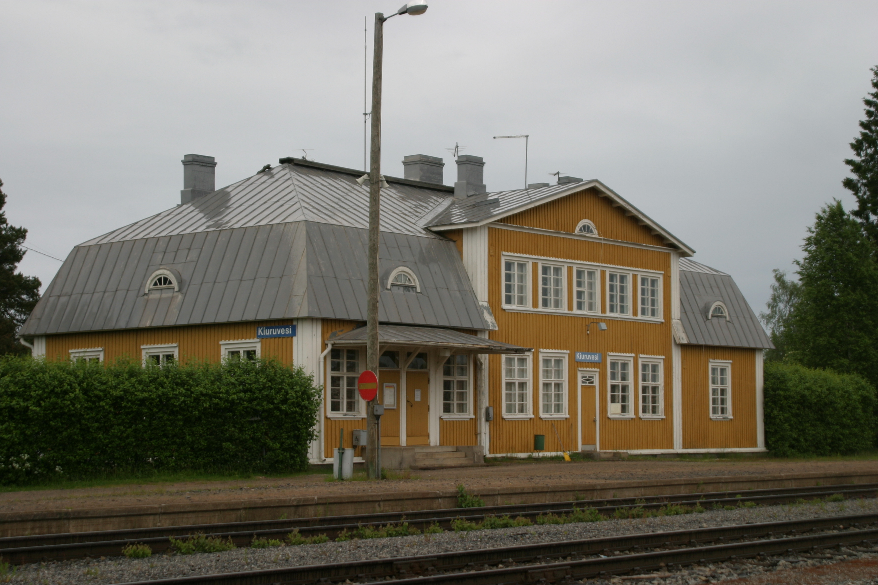 Kiuruvesi railway station in Kiuruvesi, Finland in summer 2008